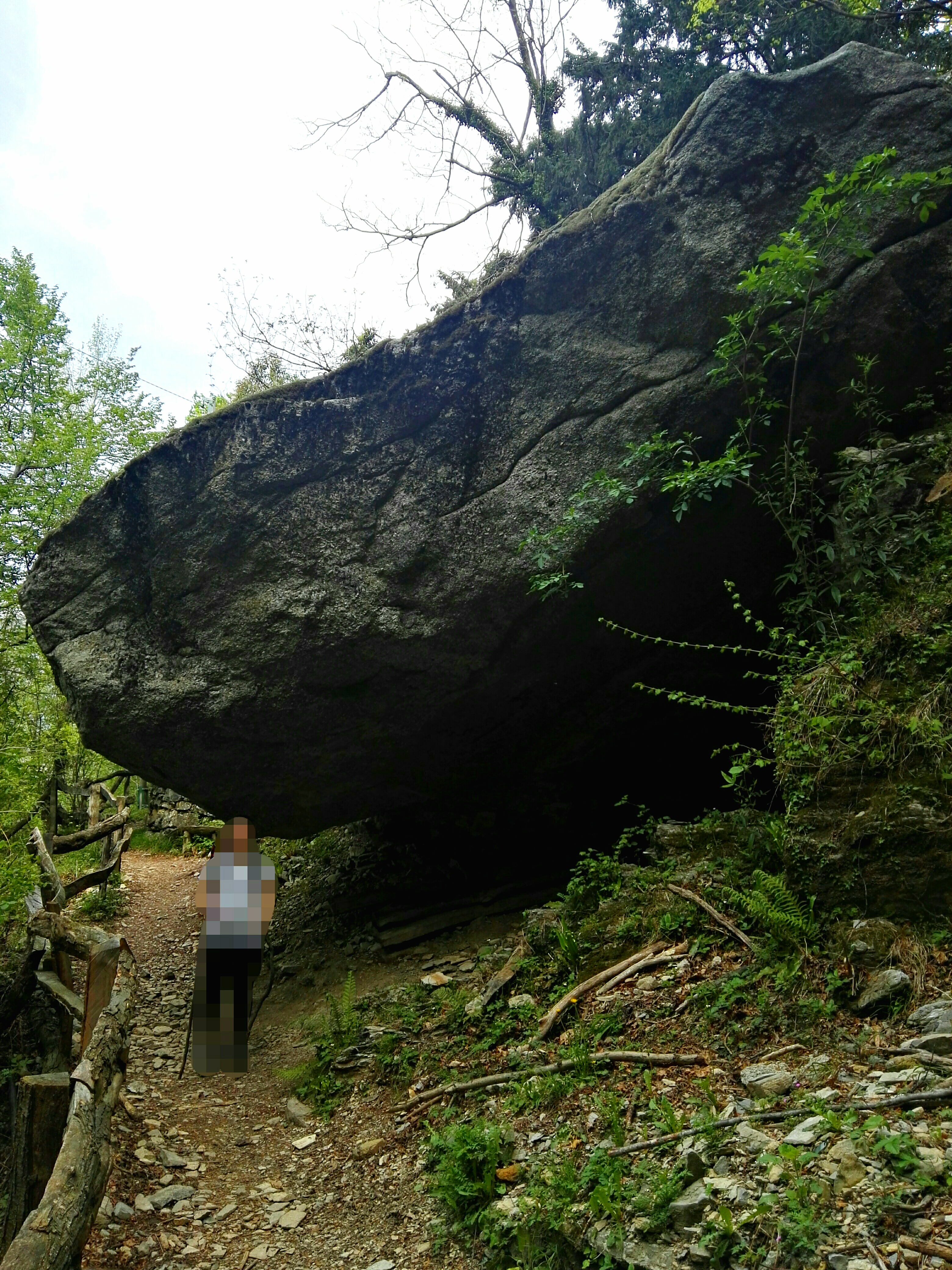 Sasso del lupo in Blevio